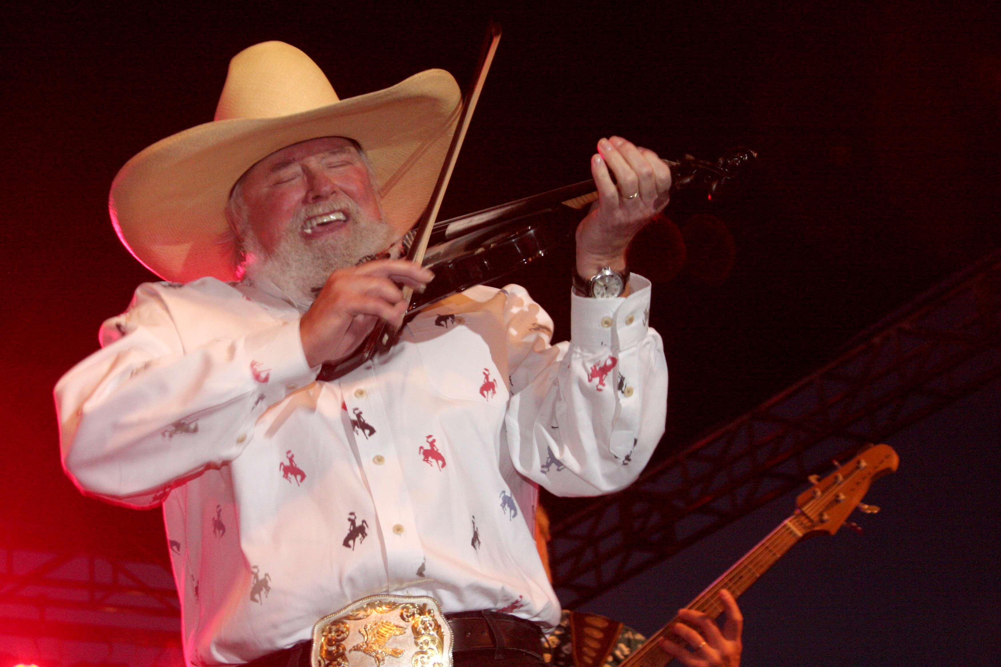 Charlie Daniels performs in fronts of thousands of Marine Corps Air Ground Combat Center Marines, sailors and family members as part of the Spirit of America Tour Aug. 7.